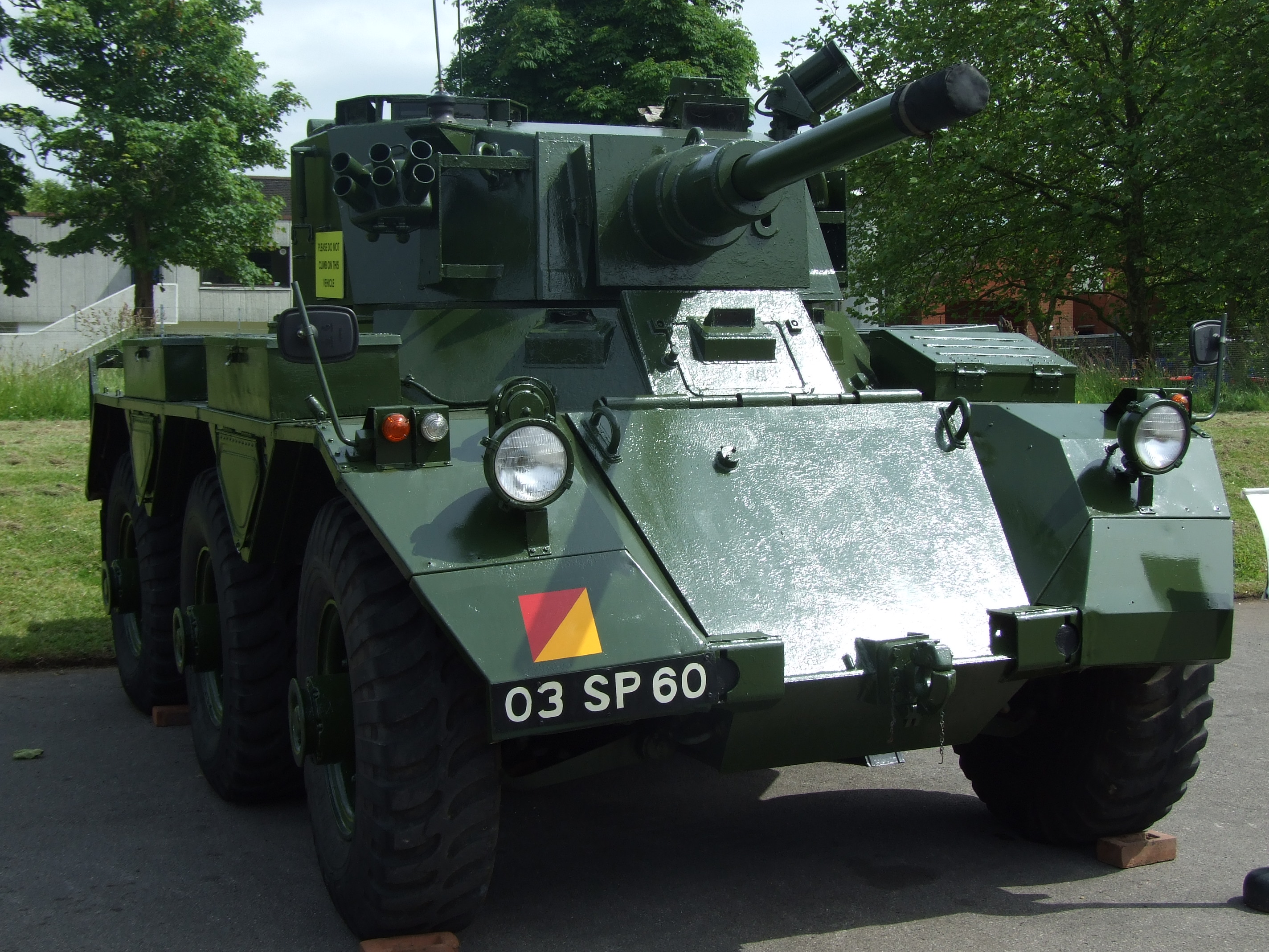 Saladin Armoured Car at the Aldershot Military Museum.